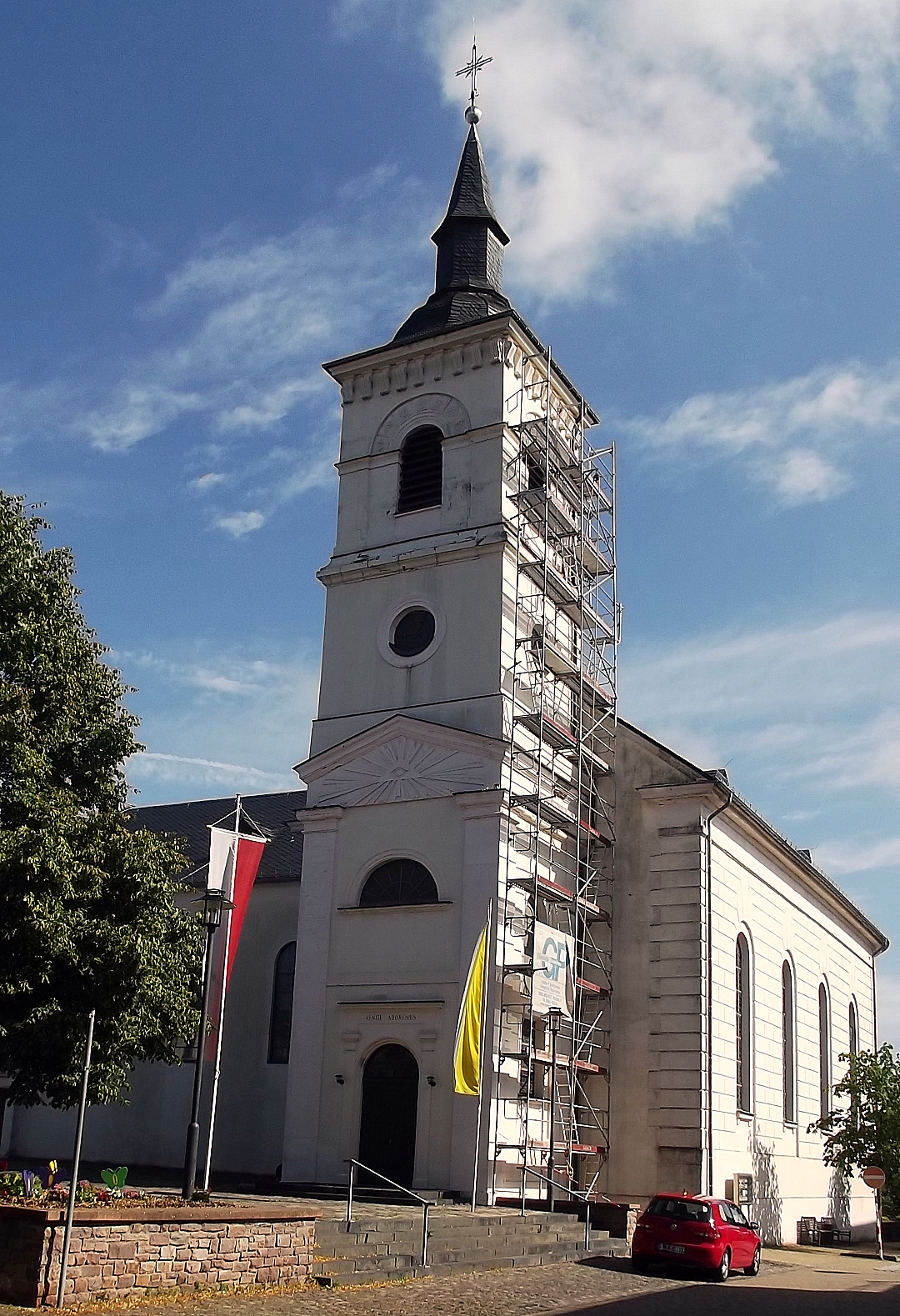 Exterior of the roman catholic church in Orscholz, Saarland, Germany